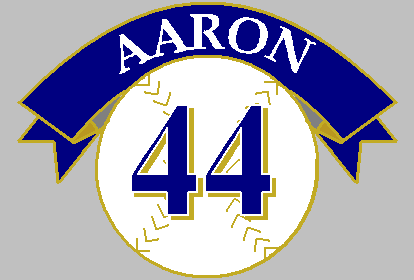 Source: I, Pharos04 made this picture on MSPaint to serve as a retired number on the Milwaukee Brewers page.